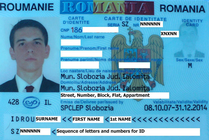 Romanian ID card N = Number (0 - 9) X = Letter (A - Z).